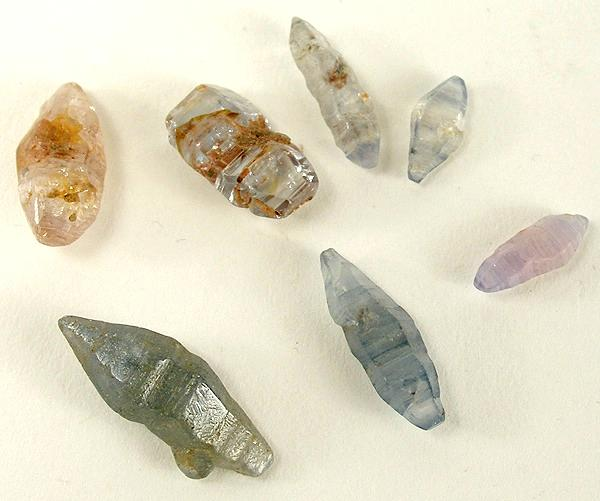 Corundum (Var.: Sapphire) Locality: Ratnapura, Ratnapura District, Sabaragamuwa Province, Sri Lanka (Locality at ) Size: 1.6 x 0.7 x 0.5 cm (largest). A fine set of 7, doubly terminated, gemmy and striated sapphire crystals from the deposits at Ratnapura, Sri Lanka. I would classify four of the crystals as blues; one as colorless and blue; one as pink with inclusions; and one a lavender/blue. Classic crystals from this well-known locale. Total weight is 14.09 carats.